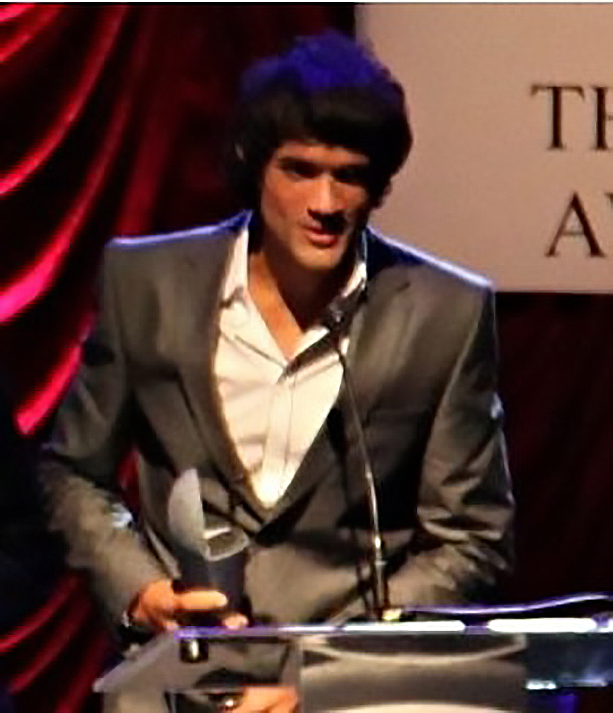 Rodrigo Rodrigues at the Irish Theatre Awards